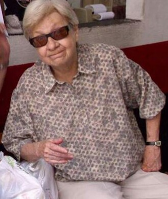 Atriz e comediante brasileira